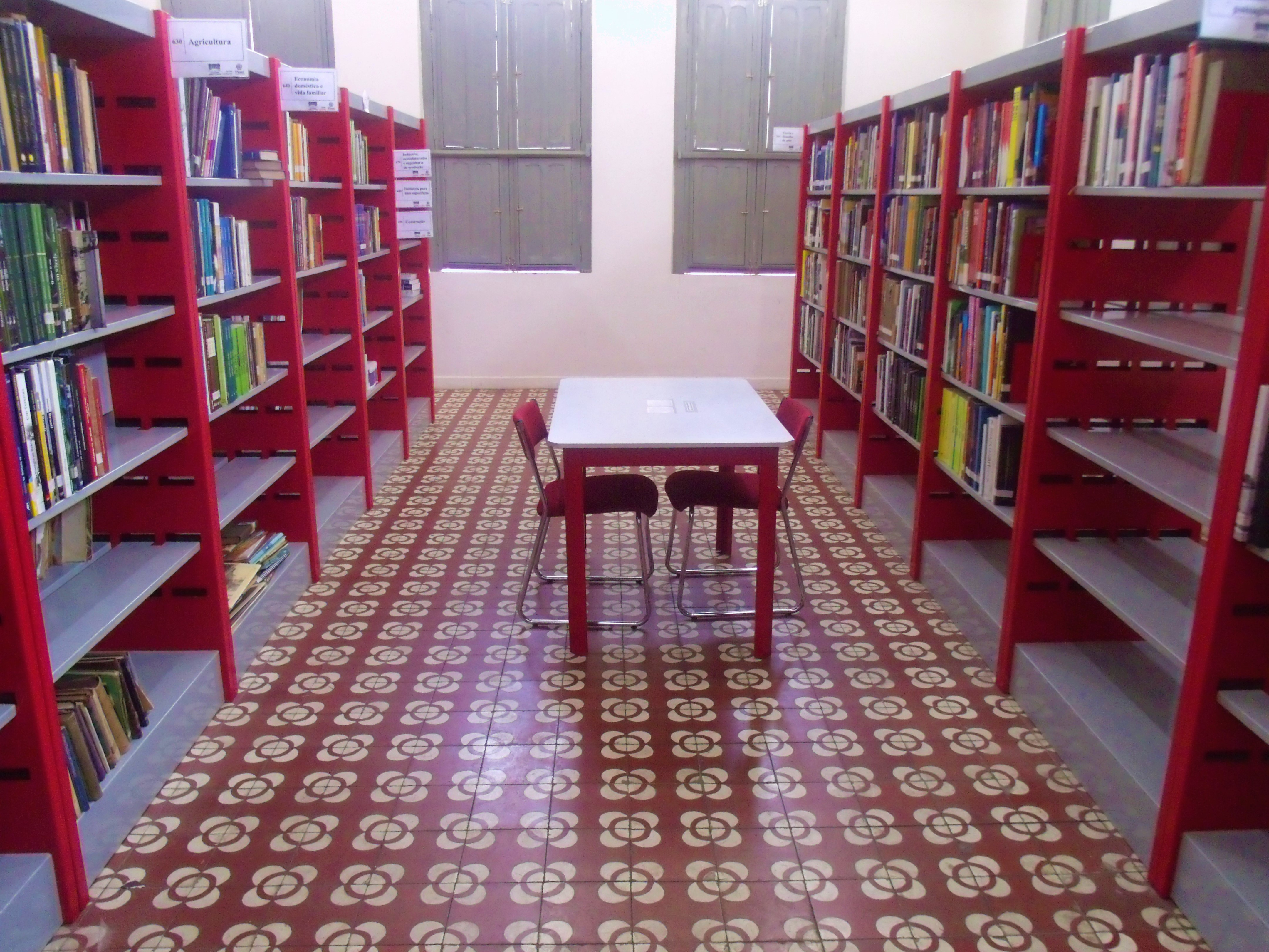 State Library of Piauí